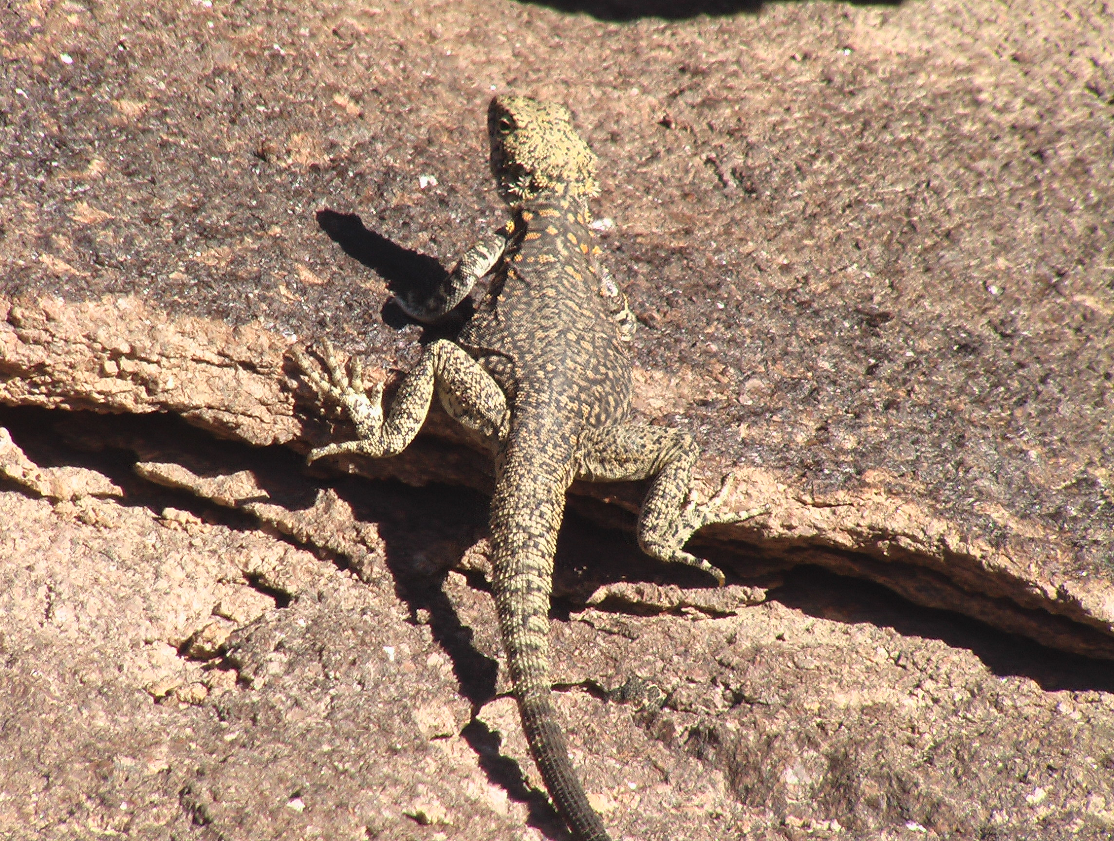 Laudakia stoliczkana, Eej Khairkhan Natural Monument, Tsogt sum, Govi-Altai province, North Gobi Desrt, Mongolia in natural conditions